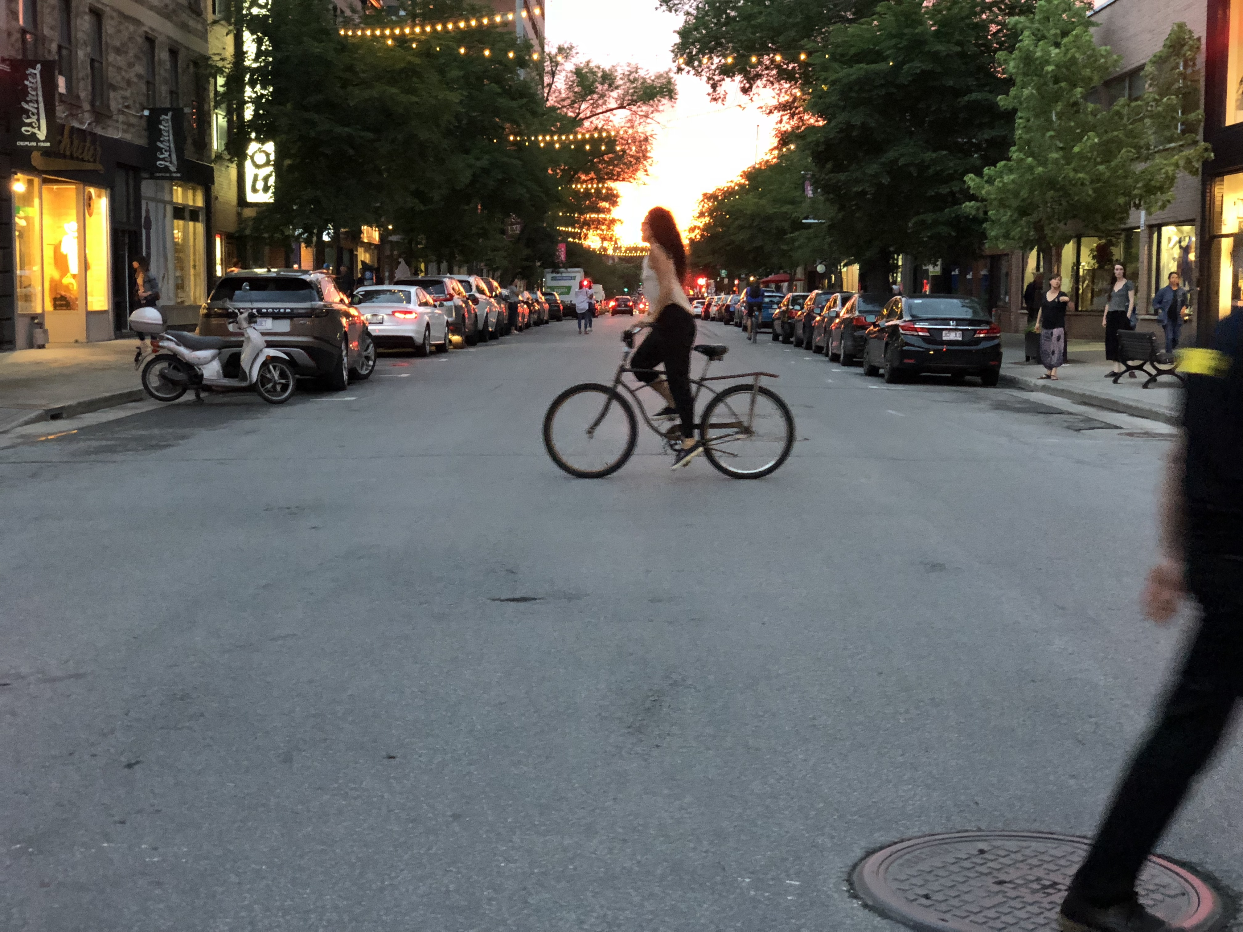 Montreal's Boulevard Saint-Laurent at sunset on summer solstice 20180620EST2048